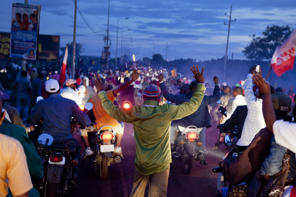 Vital Kamerhe is welcomed by his supporters as he arrives in Goma for electoral campaign on the 19th of november 2011. © MONUSCO/Sylvain Liechti